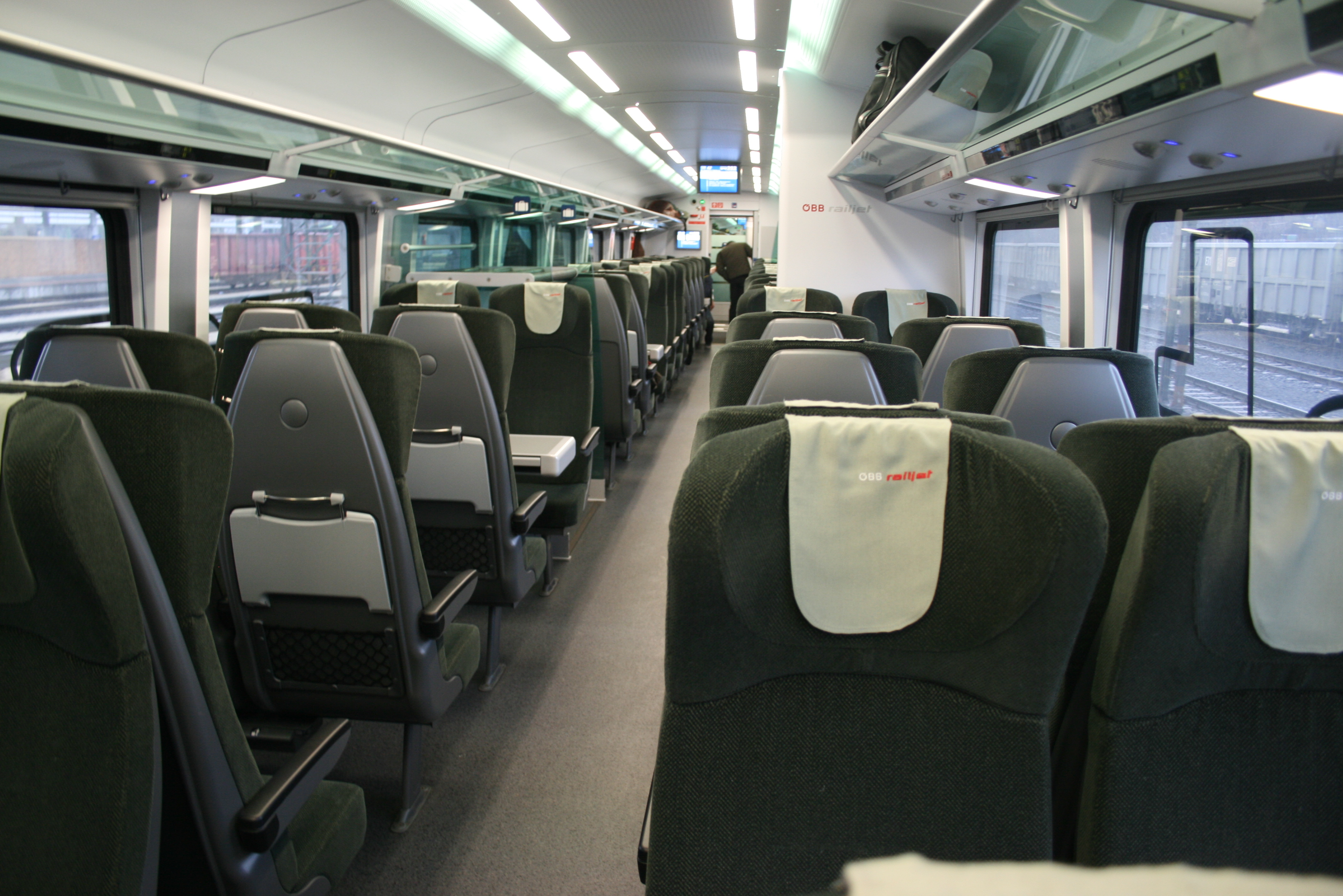 Railjet 2nd Class